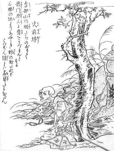 Kazenbō (火前坊, the ghost of a burned monk that appears on Mount Toribe) from the Konjaku Hyakki Shūi (今昔百鬼拾遺)